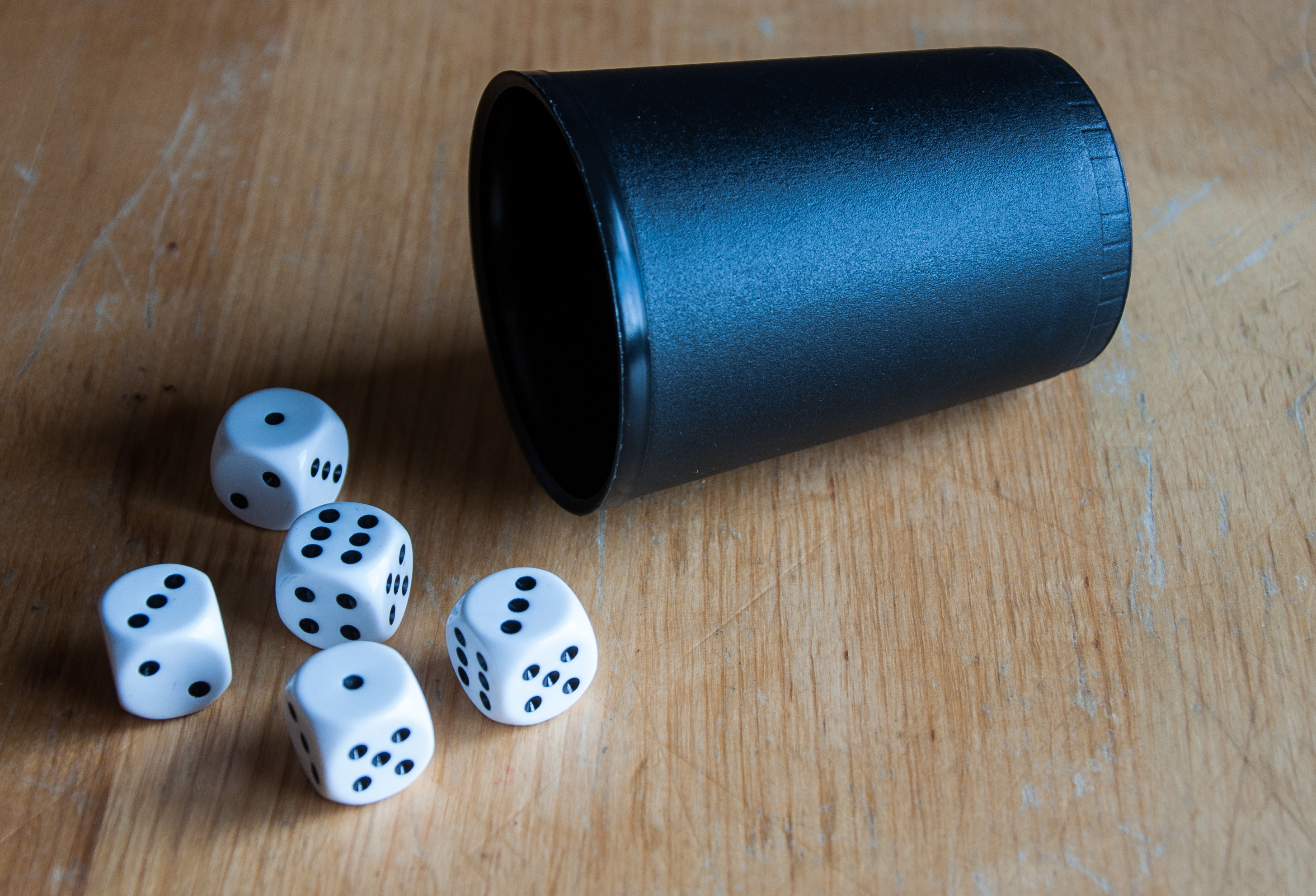 White dice